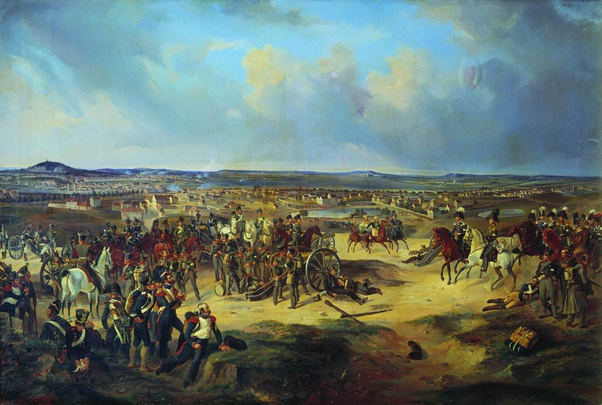 Battle of Paris in 1814, March 25 (March 17 in Julian Calendar)